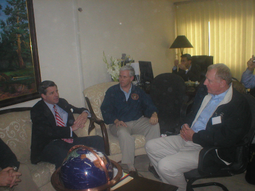 Congressman Pence and Congressman Dan Burton discuss issues with Ambassador Paul Bremer during their visit to Iraq.